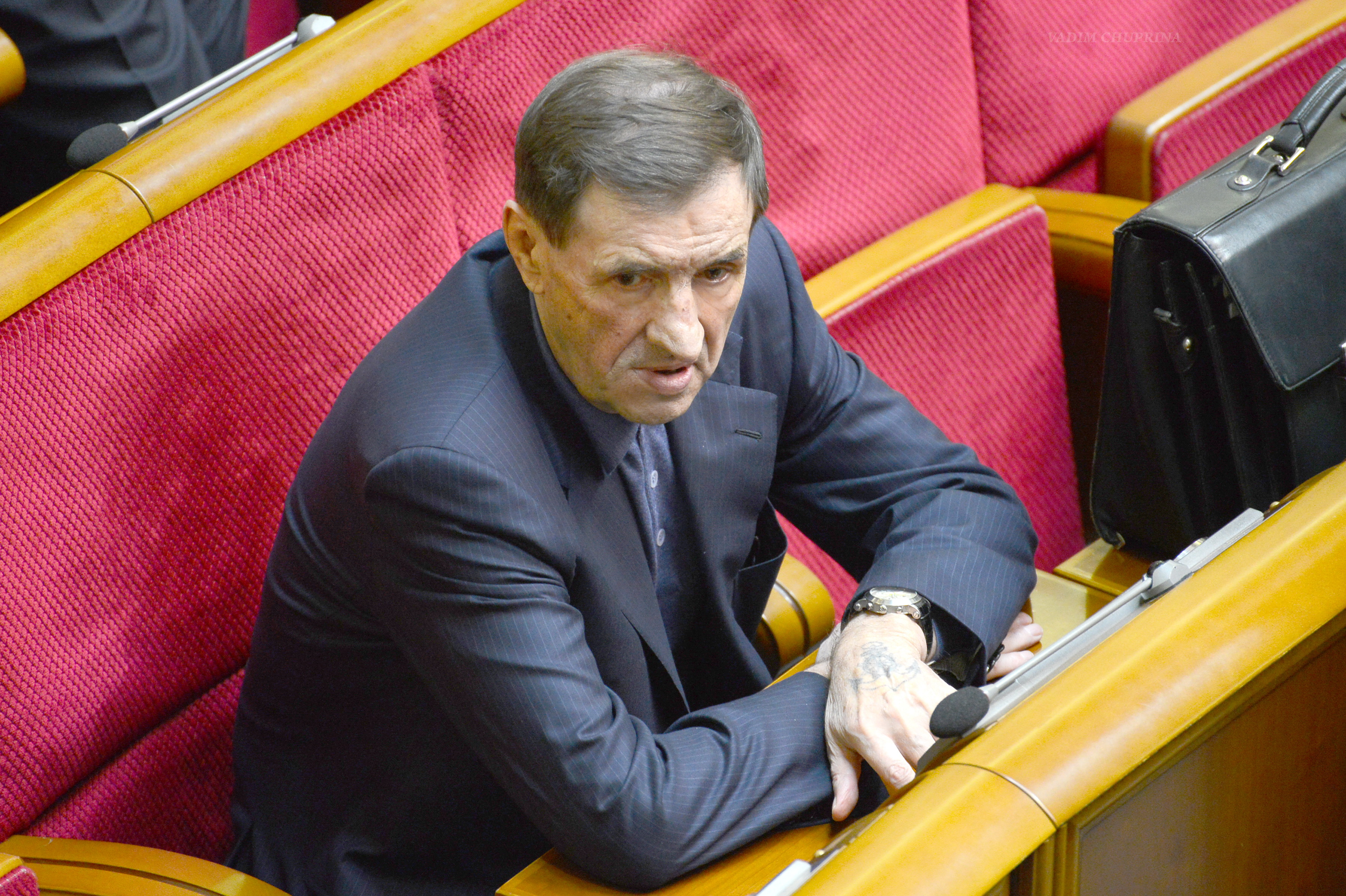 Ukrainian politicians VADIM CHUPRINA